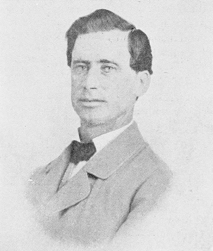 Bird B. Chapman (Nebraska Congressman)